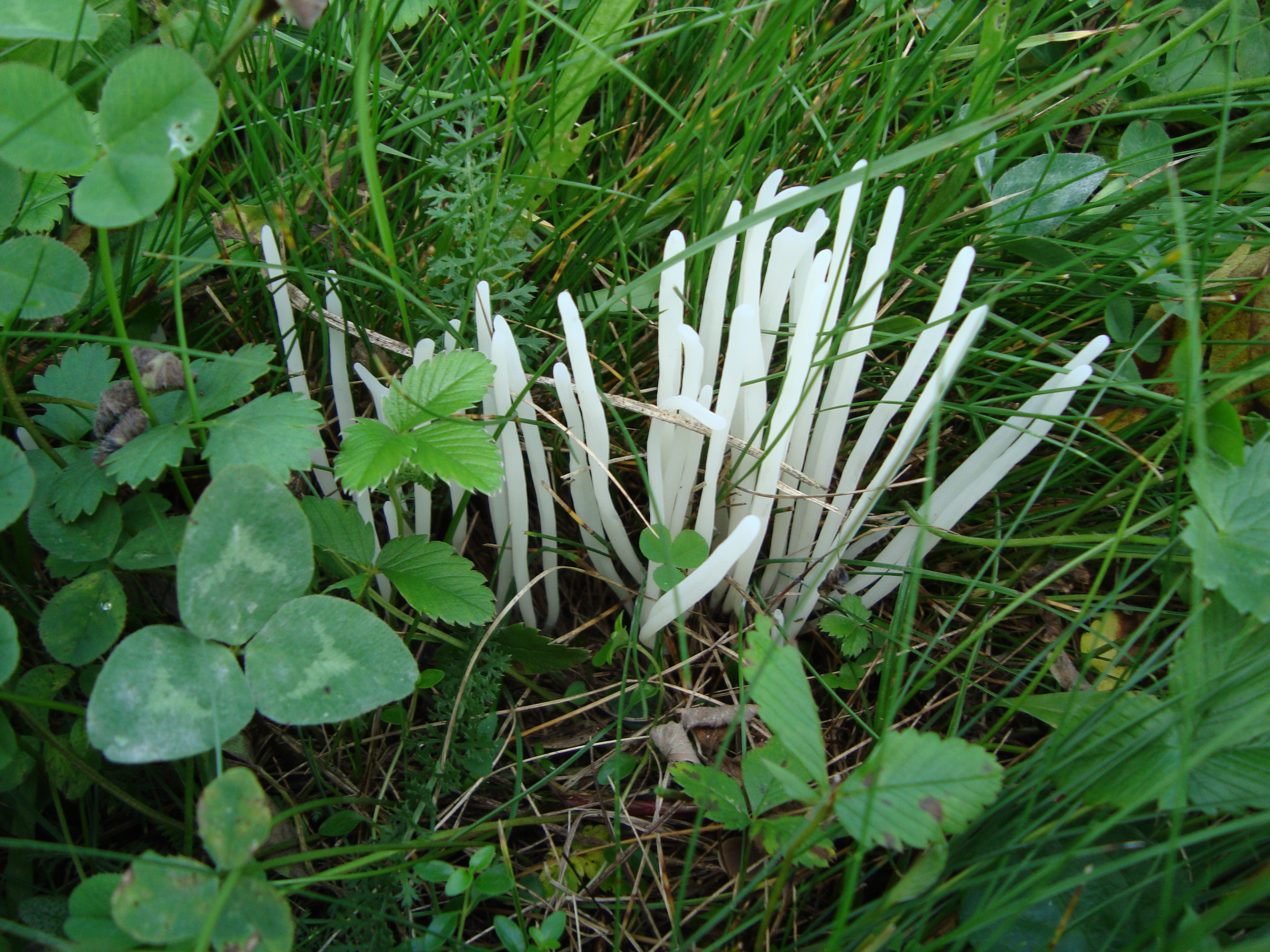 Clavaria vermicularis growing in gras, picture taken in September near Graz, Austria